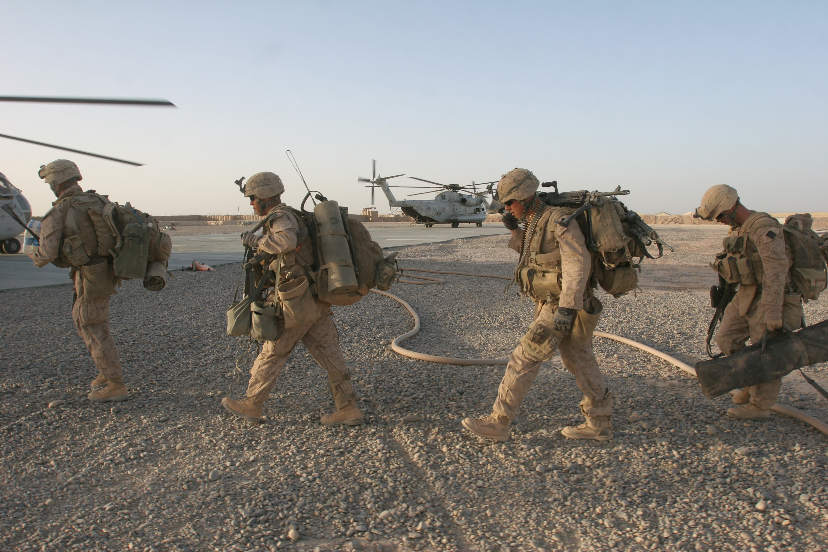 U.S. Marines with 2nd Battalion, 8th Marine Regiment, Regimental Combat Team 3, 2nd Marine Expeditionary Brigade prepare to board CH-53D Sea Stallion and CH-53E Super Stallion helicopters at Forward Operating Base Dwyer, Afghanistan, on July 2, 2009. The Marines are working with the Afghan National Security Force to build and transition security responsibilities for the Helmand province to Afghan forces.